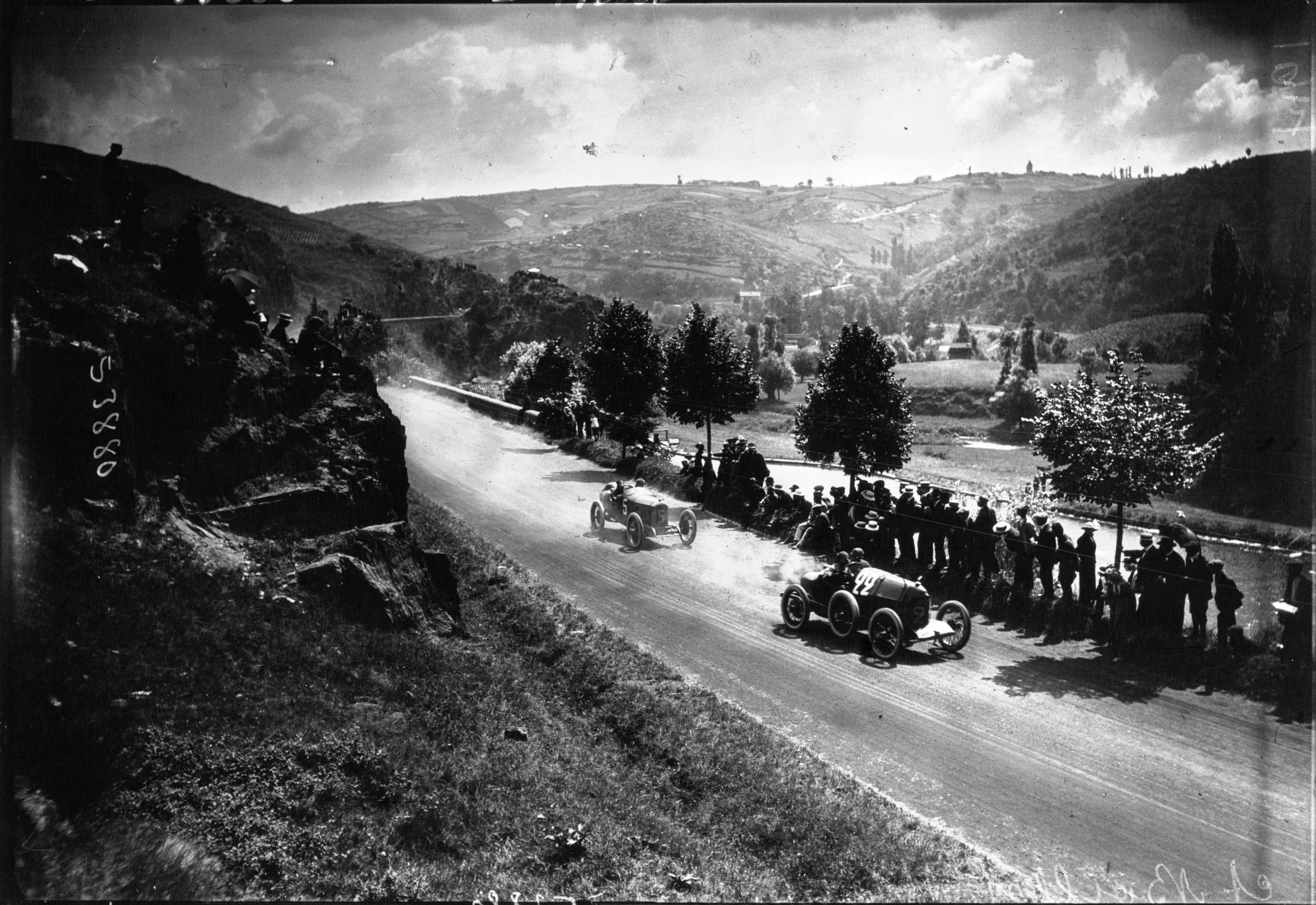 Jean Porporato (#22) and Georges Boillot (#5) at the 1914 French Grand Prix.